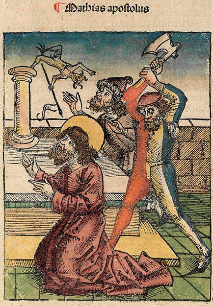 This is a part of a scan of an historical document: Title: Schedelsche Weltchronik or Nuremberg Chronicle